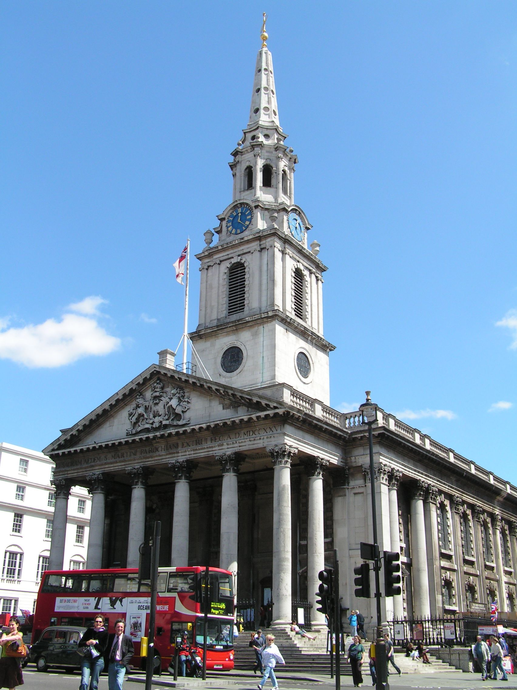 Parish church of St Martin-in-the-Fields, Trafalgar Square, London